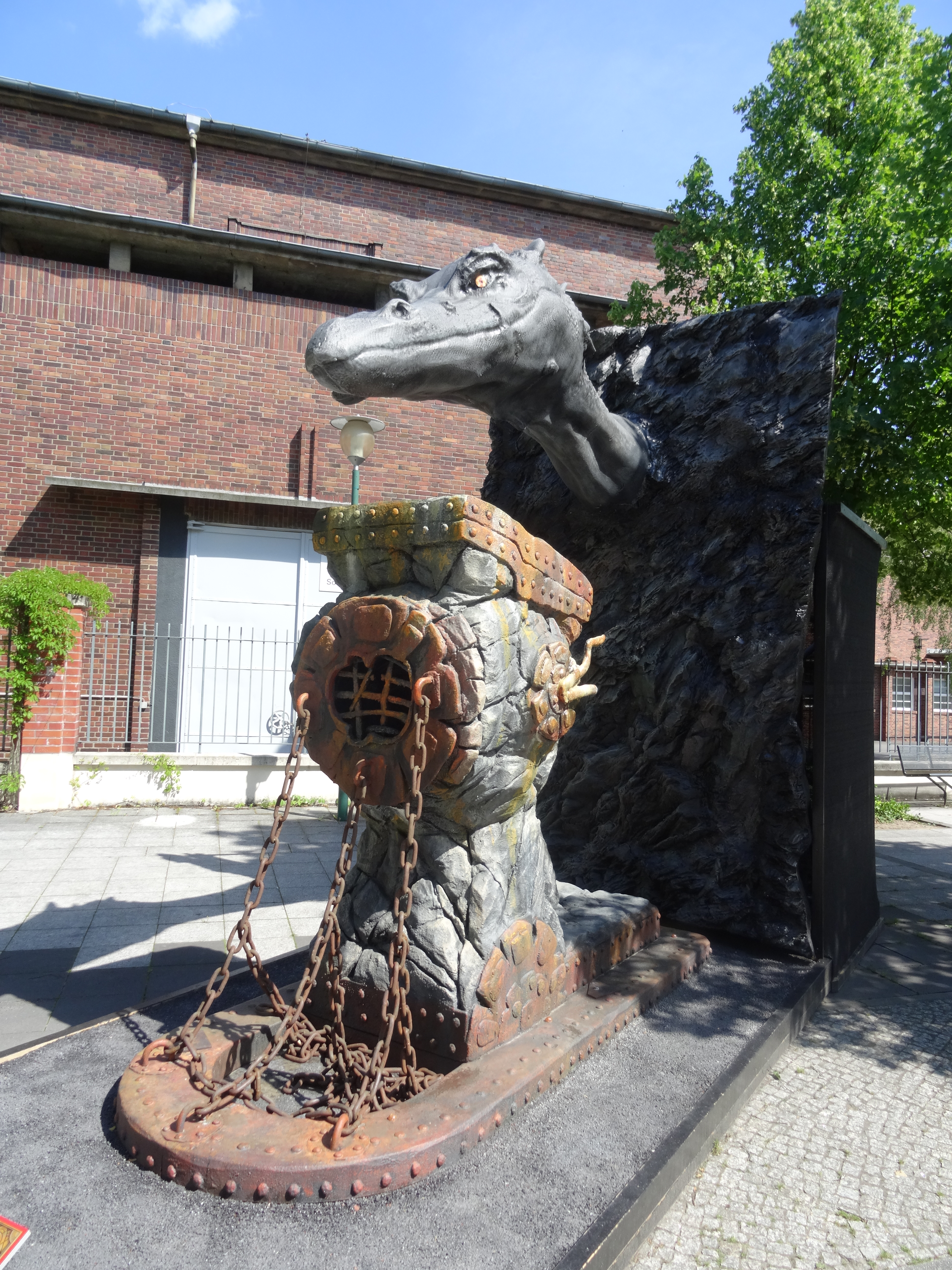 A statue of Mrs. Grindtooth from the 2018 live action adaptation of Jim Button and Luke the Engine Driver.